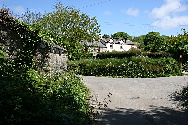 Carwynnen. This is a hamlet in the bottom of the valley sandwiched between three areas of woodland.